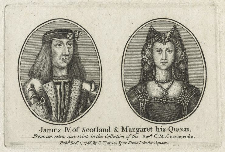 King James IV of Scotland and Queen Margaret. Published by John Thane, print, published 1796